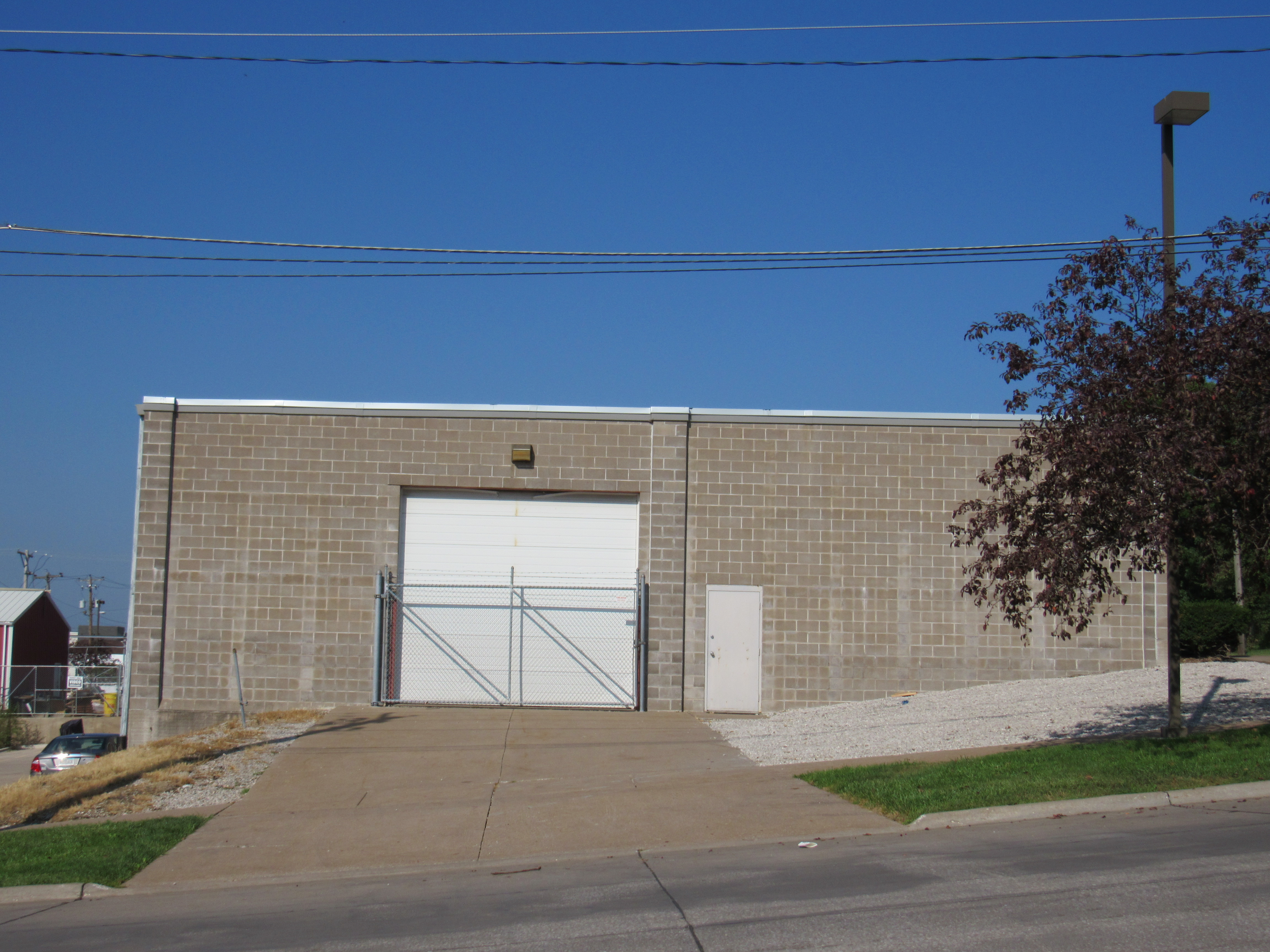 The location of the former Lucian Newhall House in Davenport, Iowa, which was listed on the National Register of Historic Places.